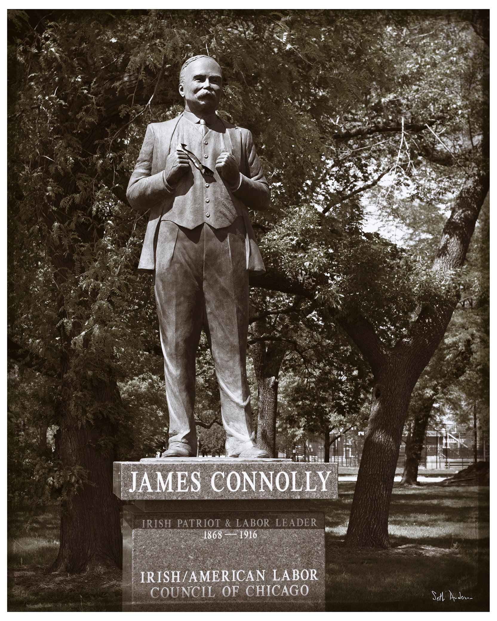 James Conolly monument at Union Park, West Loop, Chicago